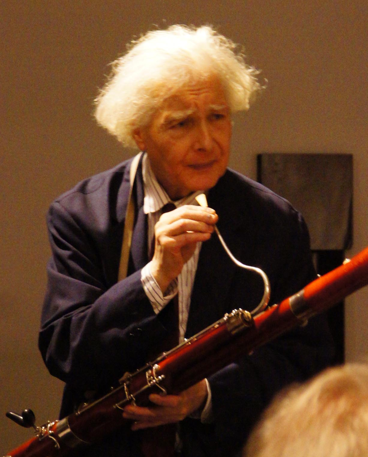 See file name. The image was taken during a recording session. Please note that camera's EXIF time stamp was by error set to UTC+2 (which would be local time CEST, instead of correct CET).